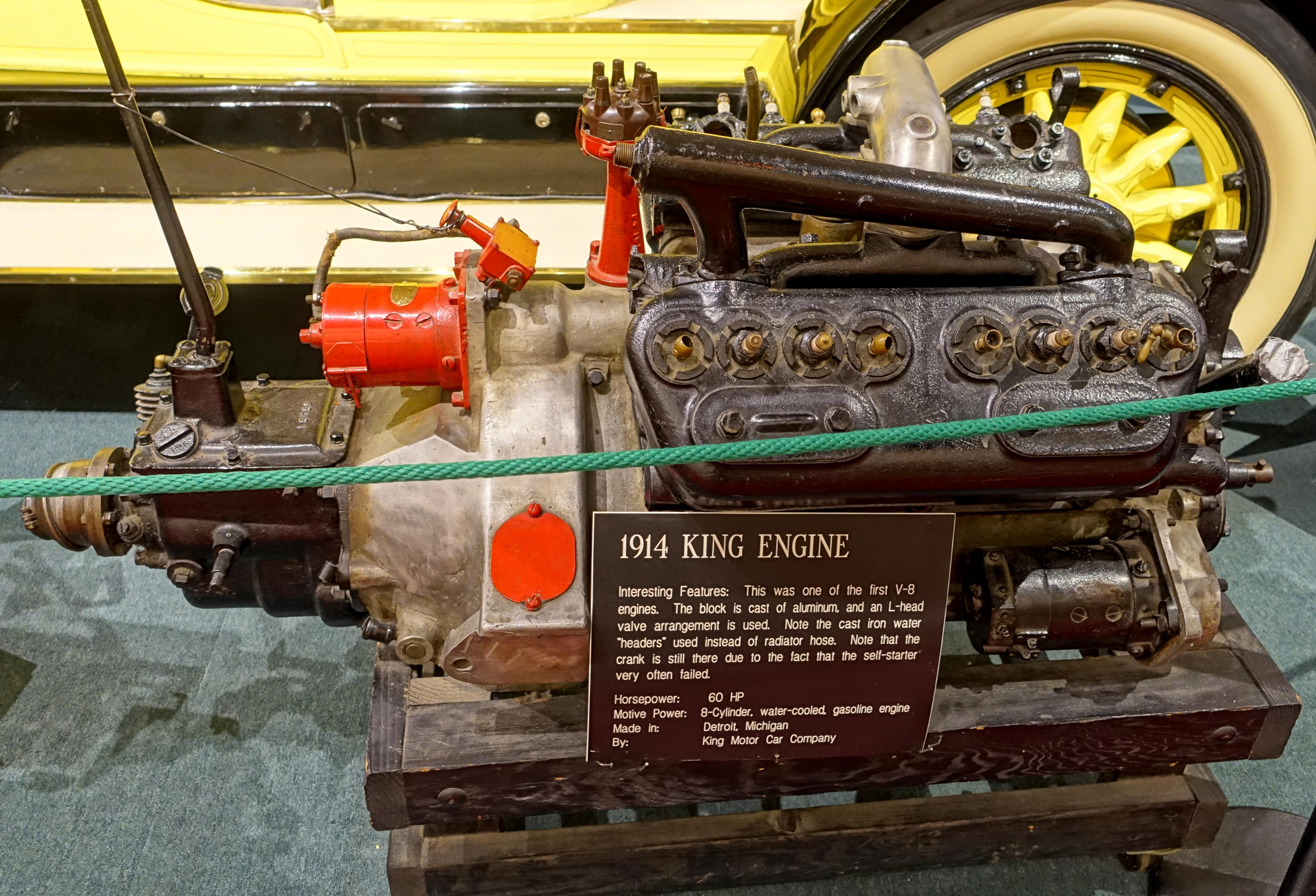 Exhibit in the in the Luray Caverns Car and Carriage Museum, Lurary, Virginia, USA.